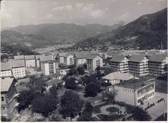 Blocks of flats being built in the town of Nehoiu, Buzău County, Romania